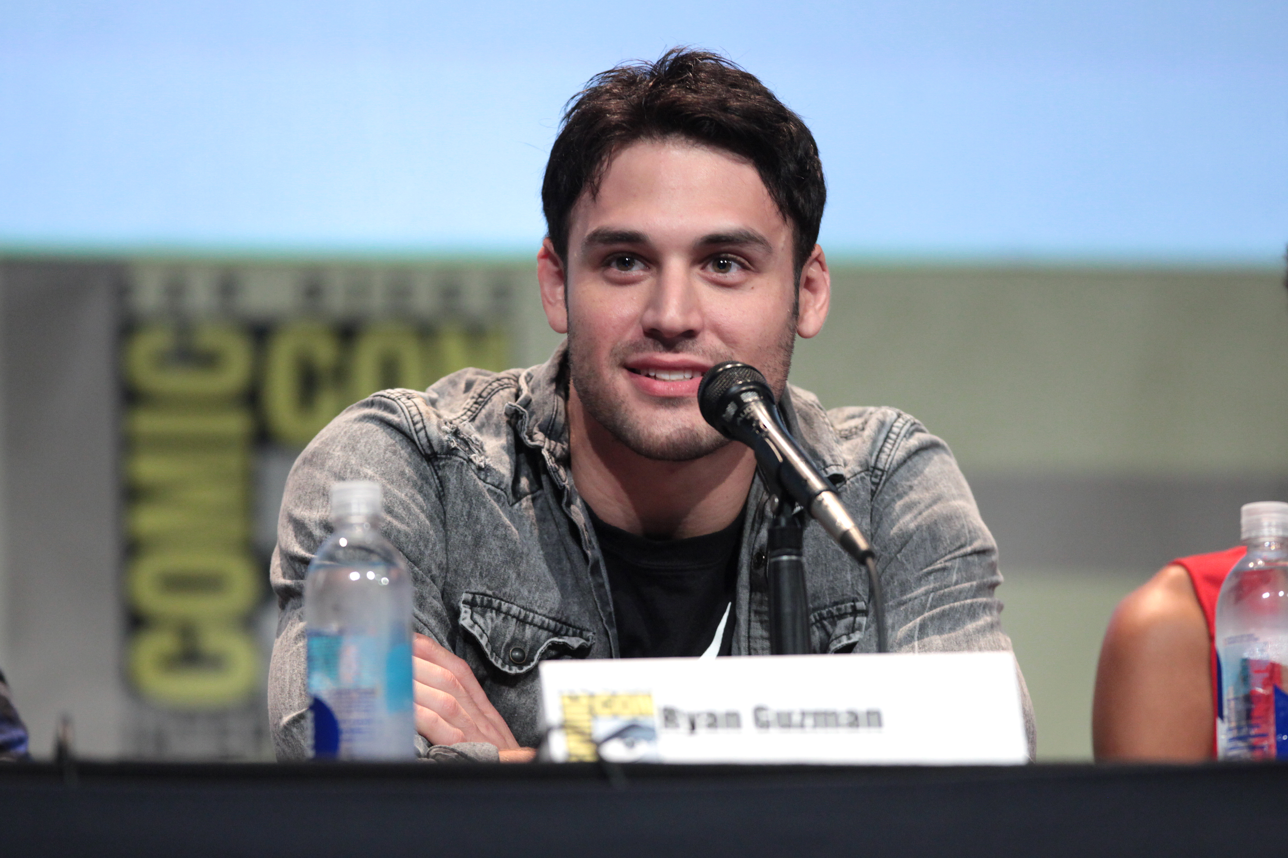 Ryan Guzman speaking at the 2015 San Diego Comic Con International, for "Heroes Reborn", at the San Diego Convention Center in San Diego, California.